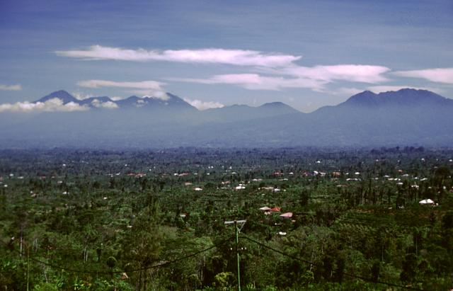 The Bratan volcanic complex is seen here from the east on the rim of Batur caldera.